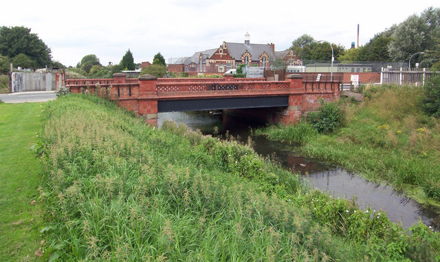 Fountain Road Bridge, Hull, East Riding of Yorkshire, England.This bridge over the Beverley & Barmston drain is dated 1889.